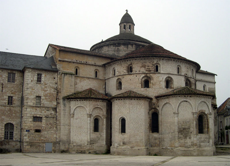 Souillac Abbey. France